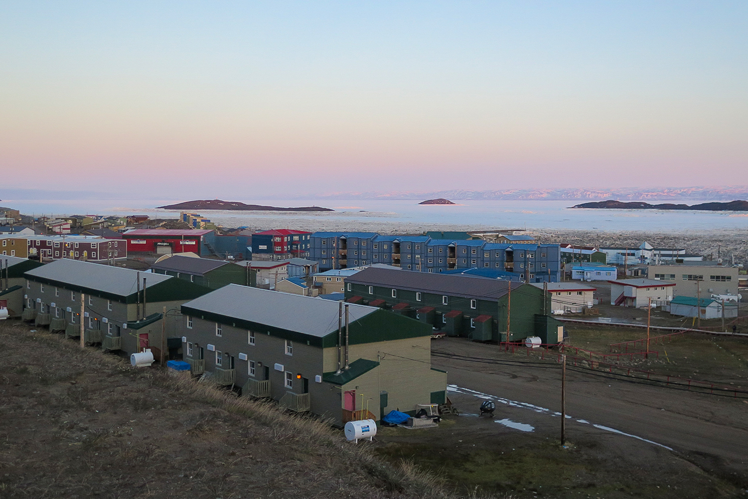 Live from #Iqaluit, it's Matuto! Last week, with help from a grant by the Embassy, the New York-based band brought their unique blend of bluegrass, Afro and Brazilian music to Canada's northernmost capital. While there, they not only performed a pair of shows at the Alianait Arts Festival (along with another concert at the Storehouse Bar & Grill), they also led percussion workshops and played a few more intimate shows for elders and infants.